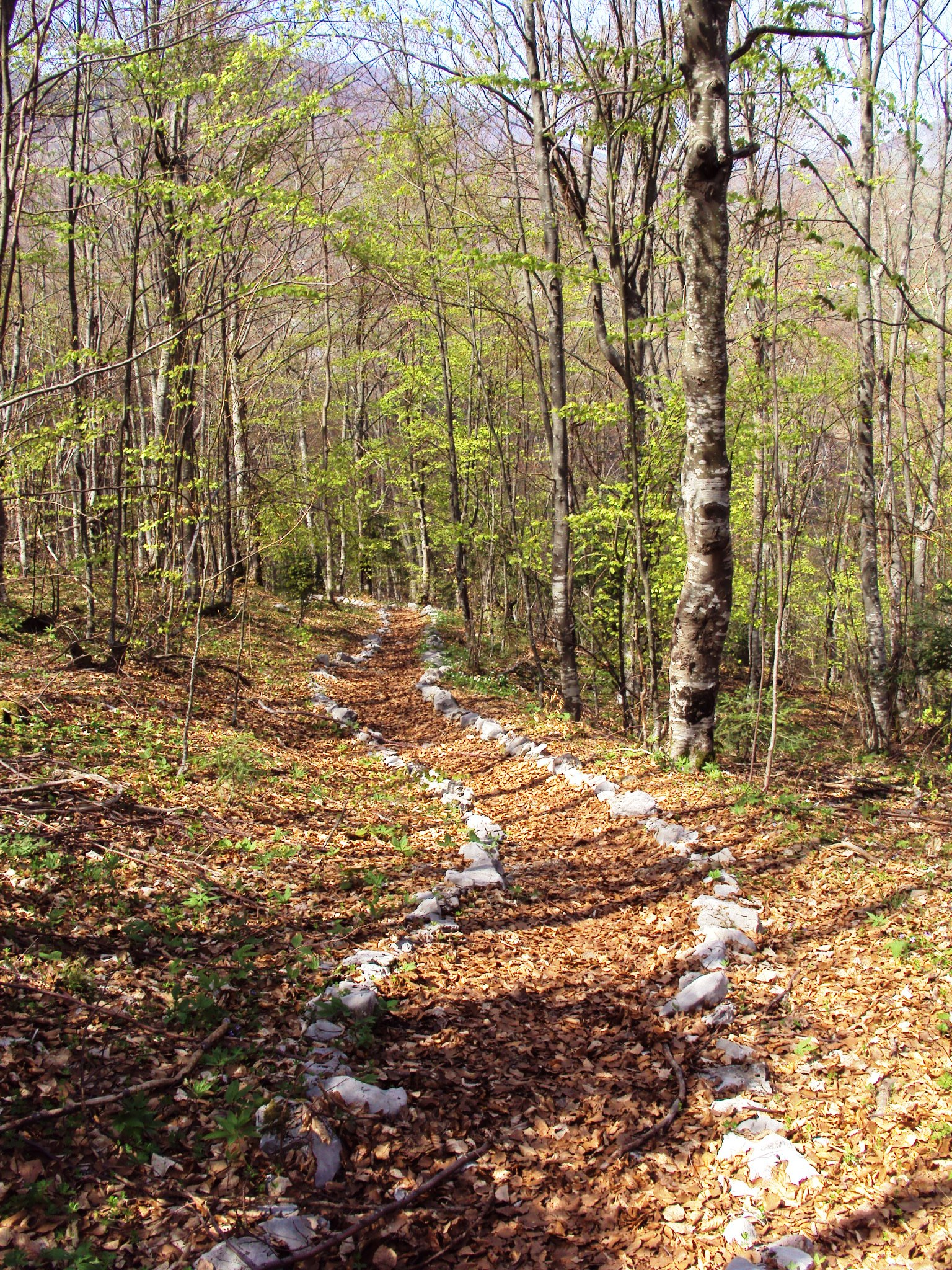 Kuterevo, Croatia